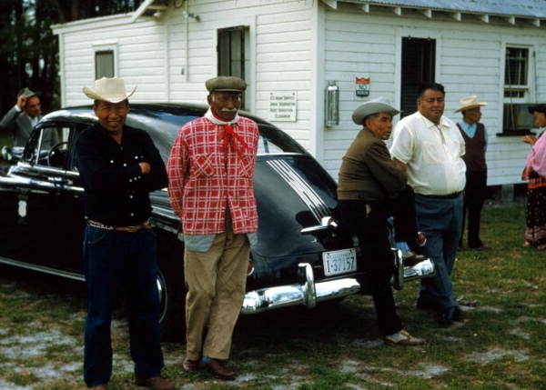 Persistent URL: Local call number: PE0969 Title: Seminole men at the Dania Reservation in Hollywood, Florida Date: January 1958 Physical descrip: 1 slide - col. Series Title: Peithmann Collection Repository: State Library and Archives of Florida 500 S. Bronough St., Tallahassee, FL, 32399-0250 USA, Contact: 850.245.6700